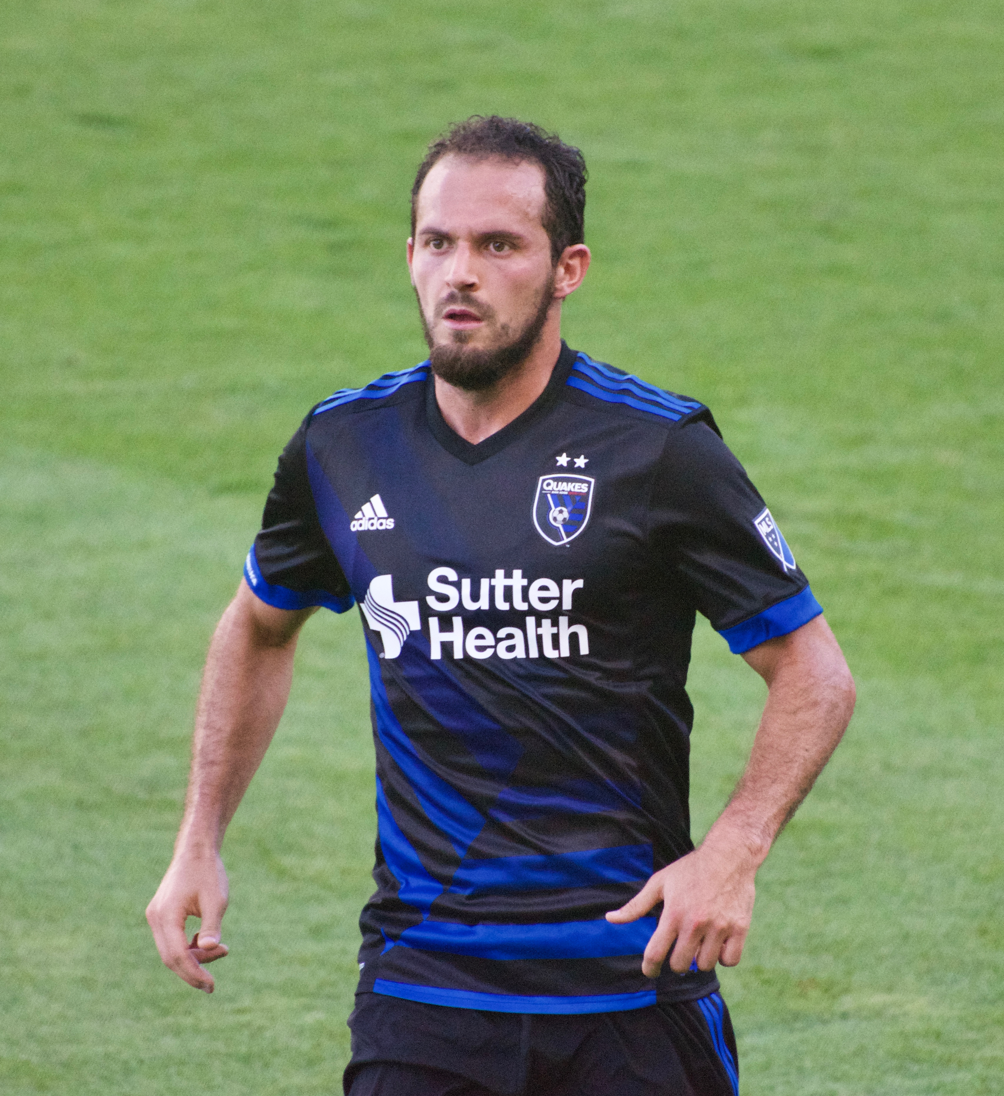 Marco Ureña playing for San Jose Earthquakes, Avaya Stadium 29 July 2017